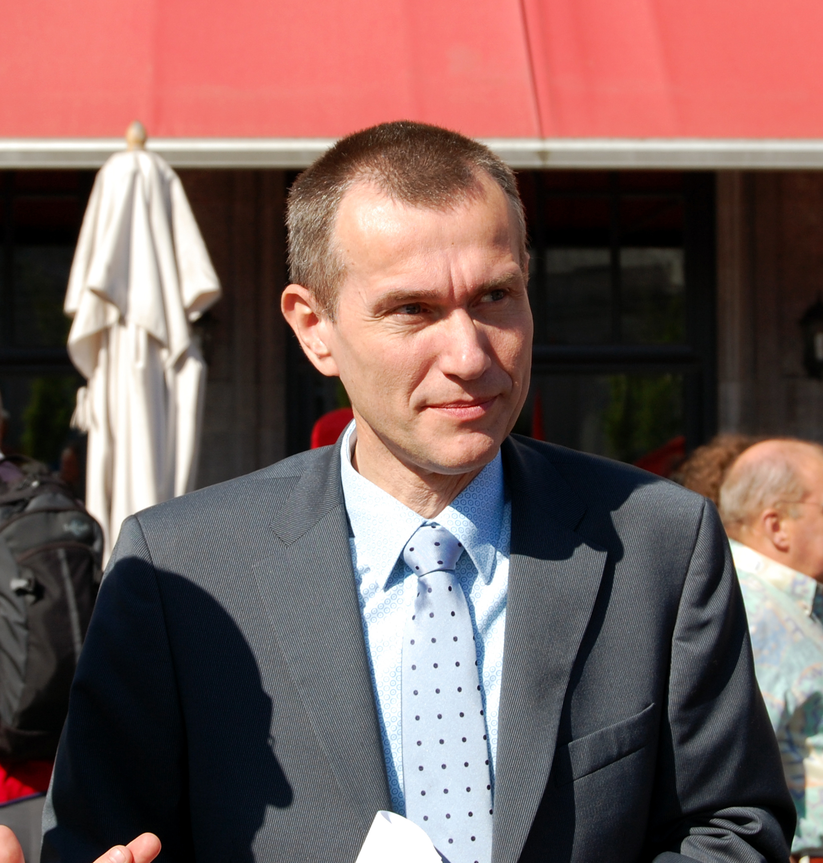 Belgian politician Frank Vandenbroucke during the celebrations of May 1 in Leuven, Belgium.)